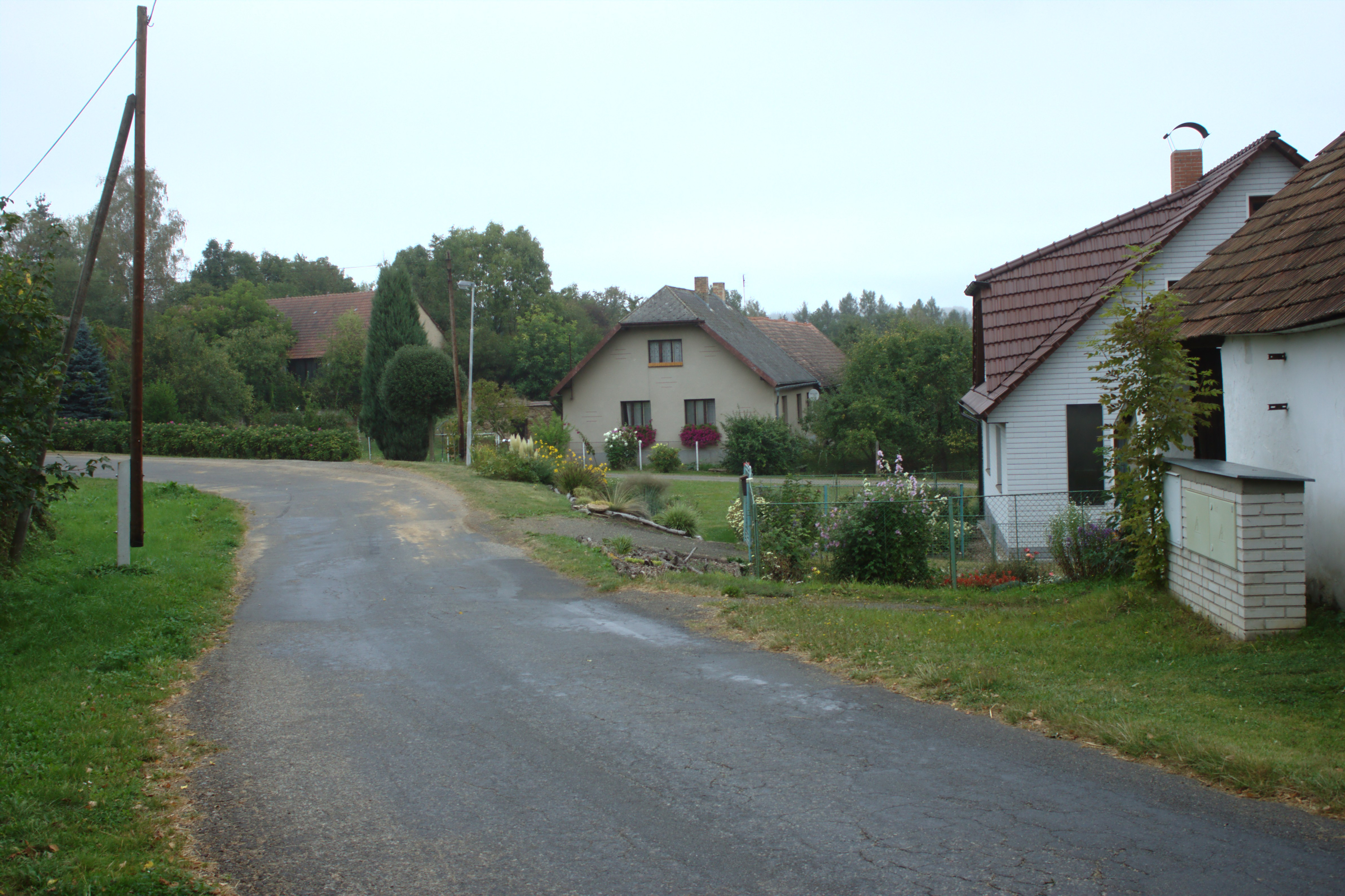 Main road in Blažnov, near Křešín, CZ